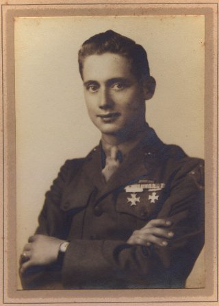 Guadalcanal, Marine Corps, 1st Division, Rube Garrett, Marine Diary Battle of Guadalcanal